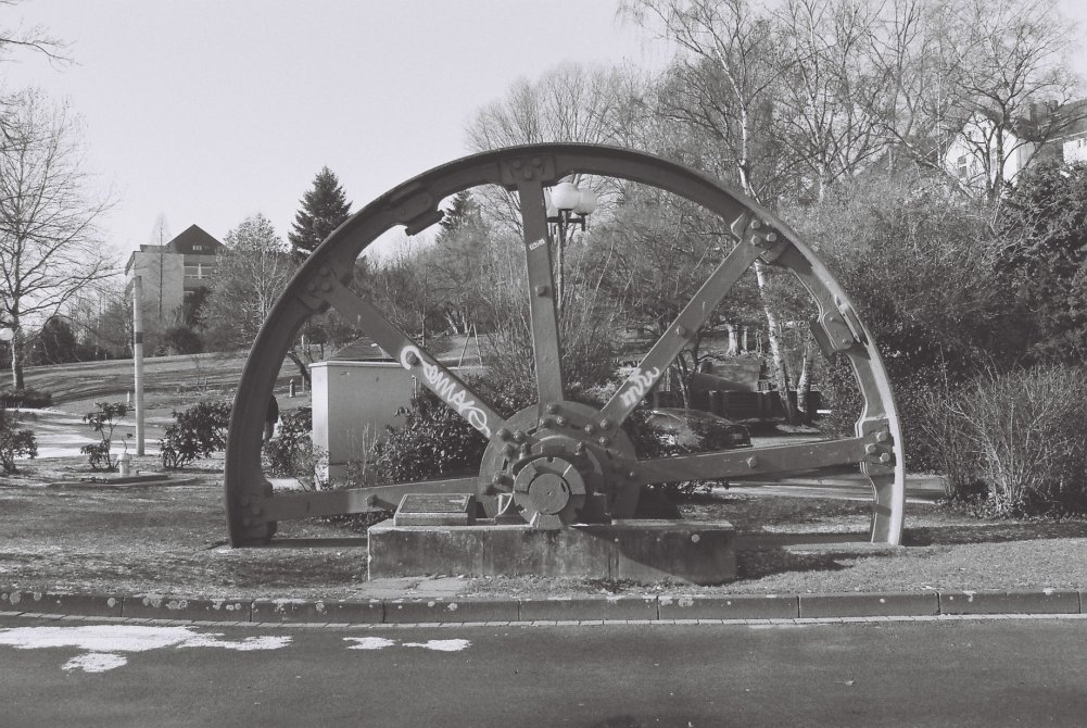 Flywheel of a steam engine in Wetter (Ruhr), Germany